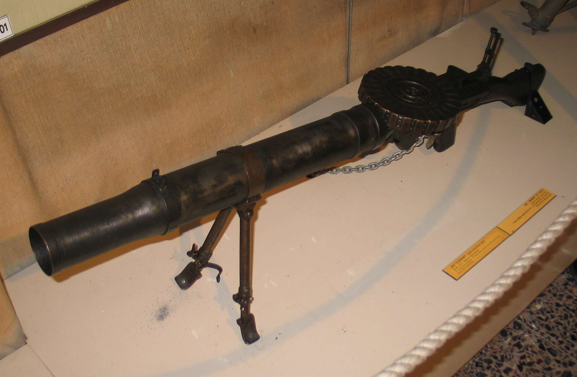 Batey ha-Osef museum, Tel Aviv, Israel.